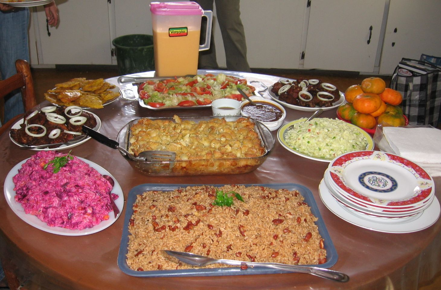 Haitian Cuisine. In this photo there is rice and beans (diri kole ak pwa). Pink salad, which is similar to potato salad, but has beets which turns it pink. Baked macaroni. Fried plantains. Fried chicken and pork (Griot). Green salad. Sauce and piklis, which is similar to coleslaw without the mayonnaise, but it's also very spicy and very good.